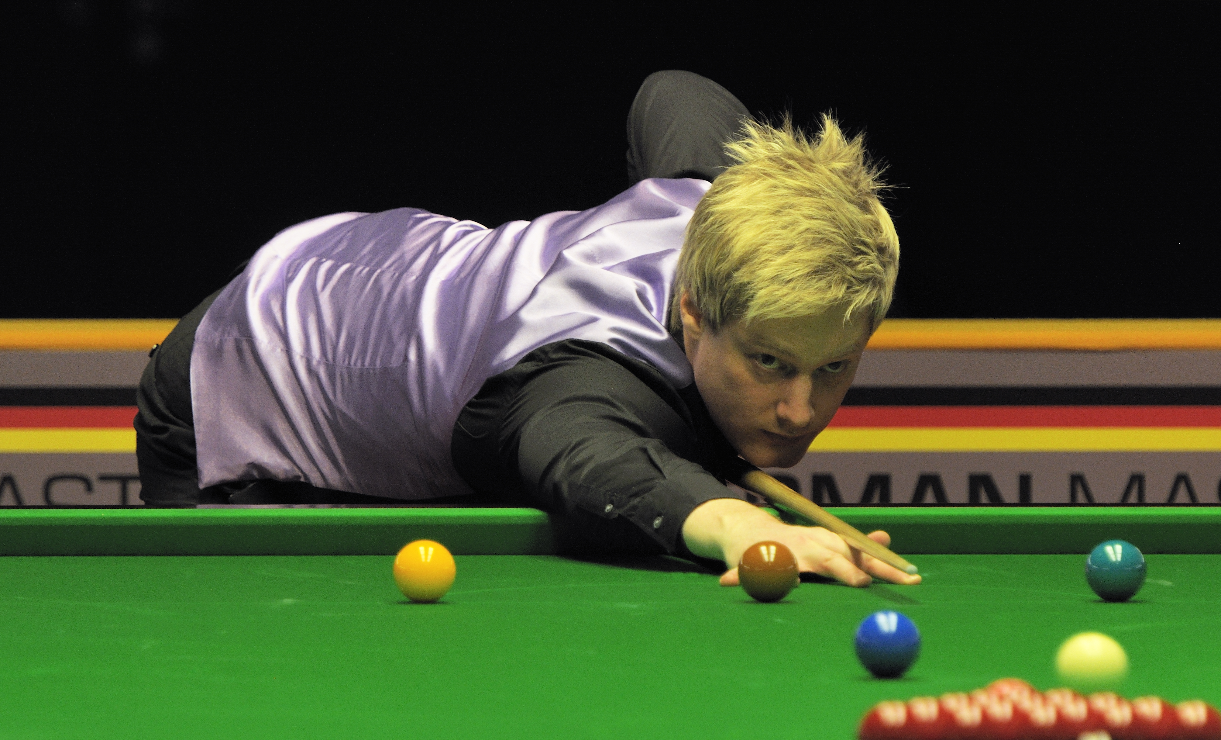 Picture taken in Berlin during the Snooker German Masters in 2014. Neil Robertson.